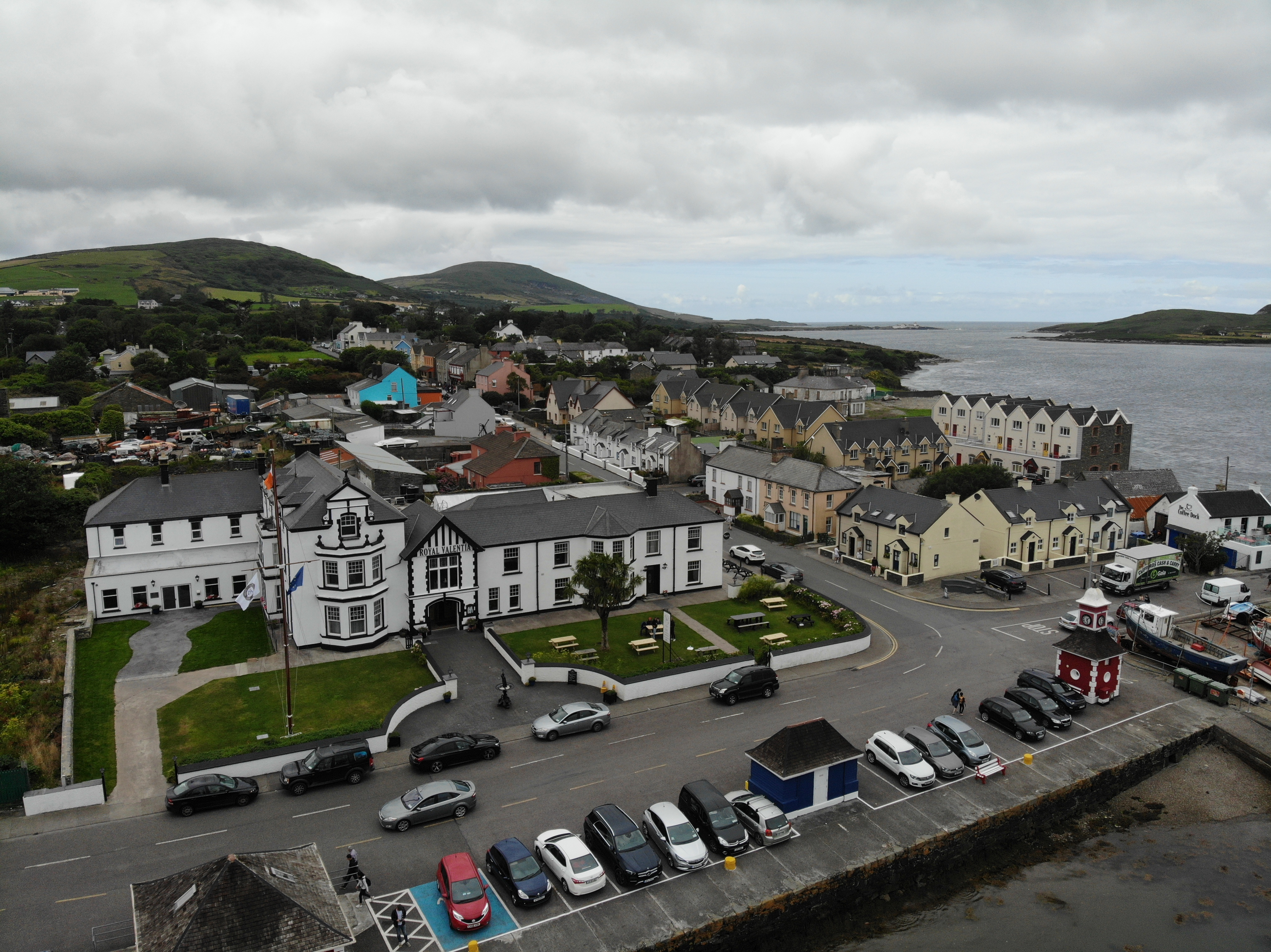 An aerial view of Knightstown with the Royal Hotel in the foreground.